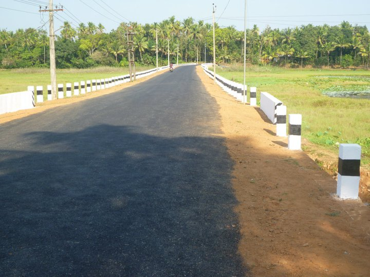 The road that connectin Kodussery to Angamaly town road NH-47